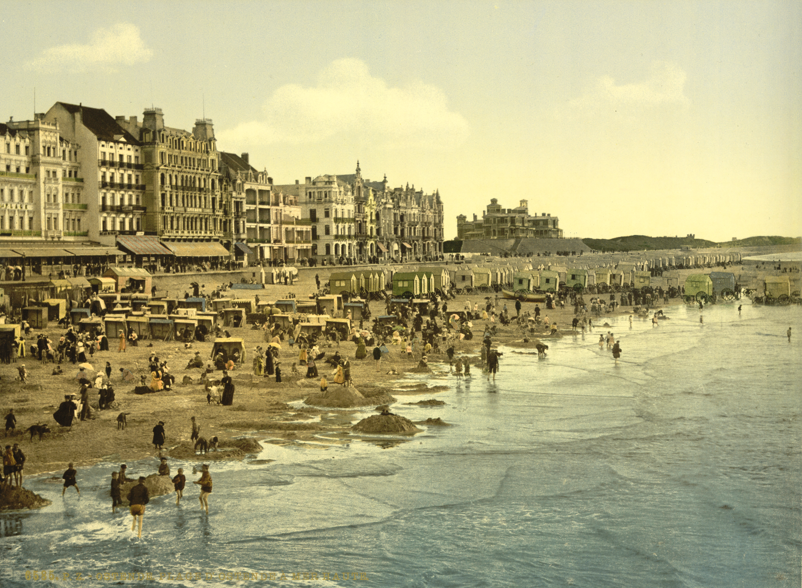 The beach at high water (ca. 1895), Oostende, Belgium From the Detroit Publishing Co. Collection at the U.S. Library of Congress. More postcards from Belgium - More photochrom postcards [PD] This picture is in the public domain.